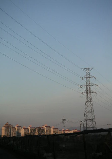 A view as one enters Guri. ---- Photo taken by this user for use in wikipedia.